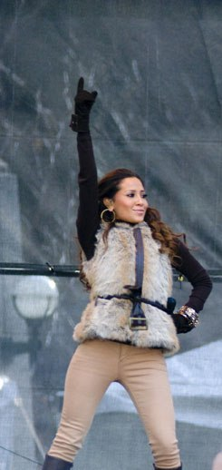 Adrienne Bailon at The Magnificent Mile 2008 Lights Festival.